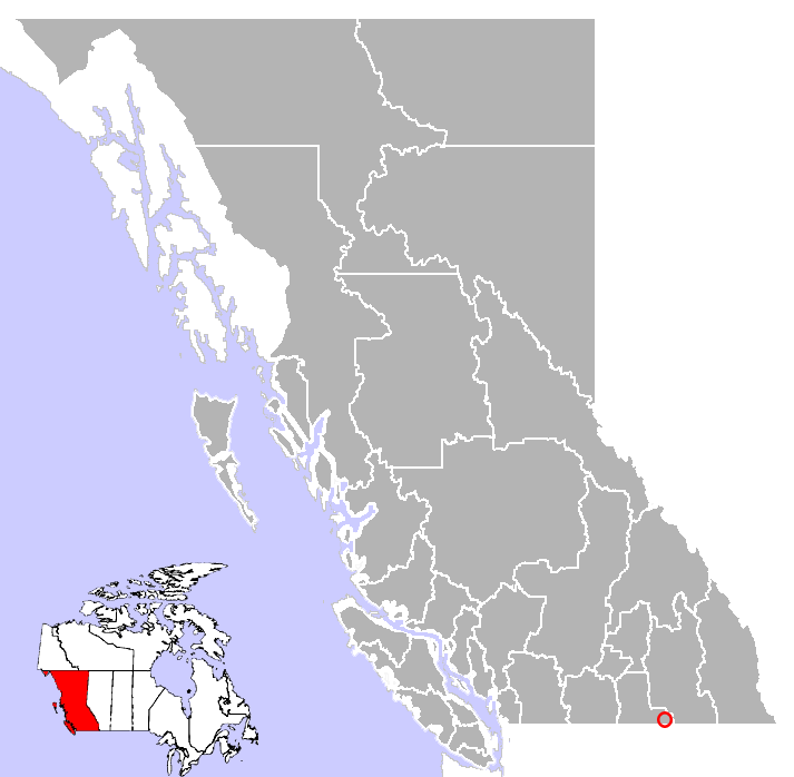 Rossland, British Columbia location.